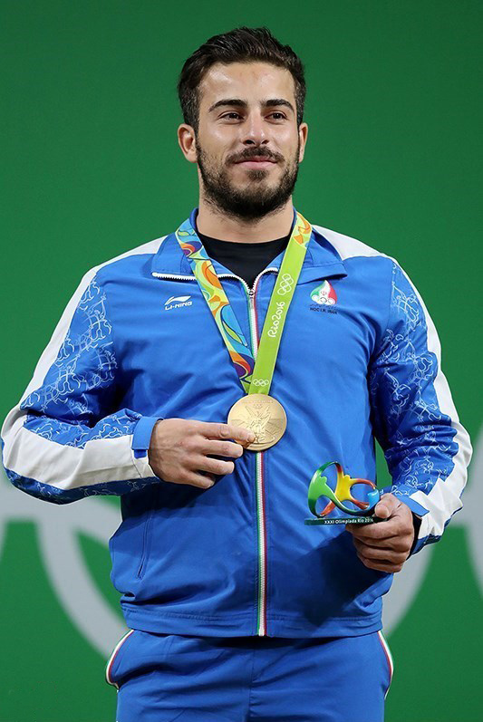 Weightlifter Kianoush Rostami Wins Olympic Gold for Iran at the 2016 Summer Olympics.